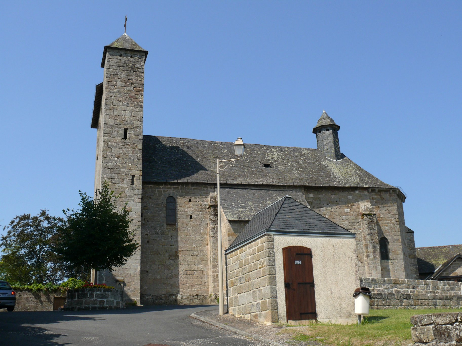 Our-Lady-of-the-Assumption's church of Noailles (Corrèze, Limousin, France).